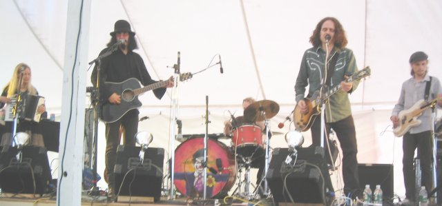 Gandalf Murphy and the Slambovia Circus of Dreams at RoR Festival